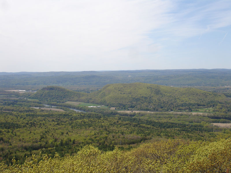 South Sugarloaf, MA, as seen from Mt. Toby, MA